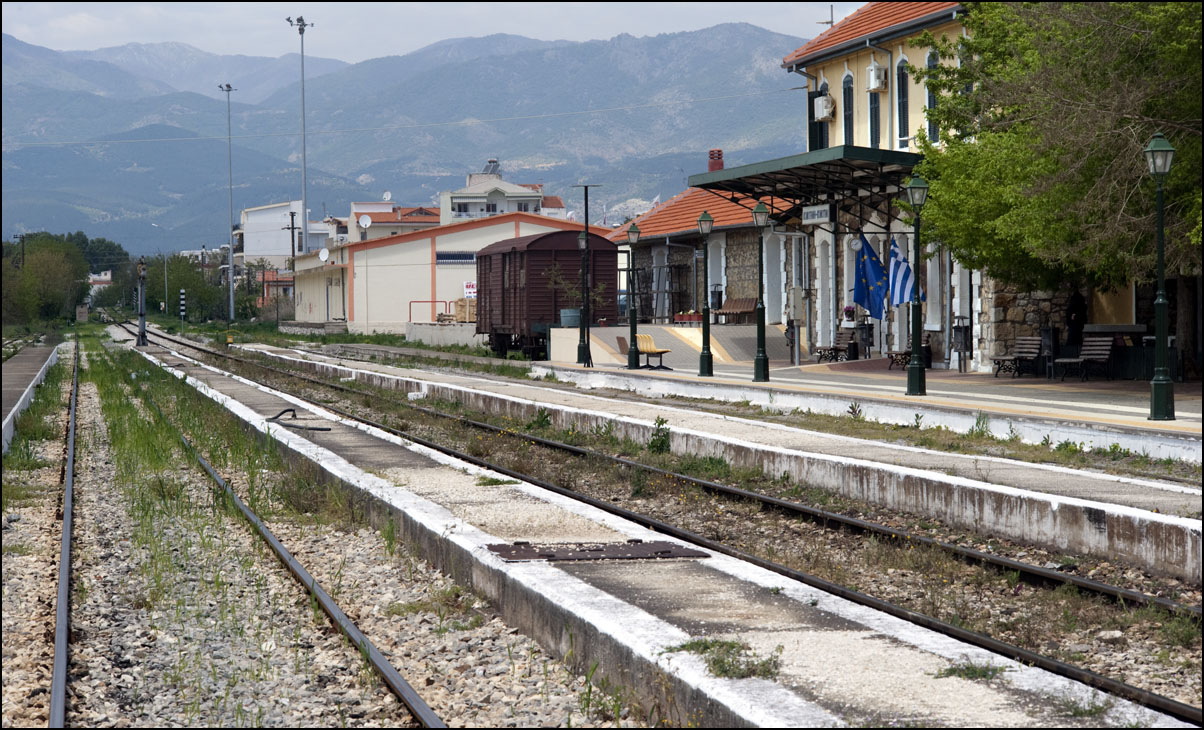 Komotini (Gümülcine), Greece. The train station of Komotini.